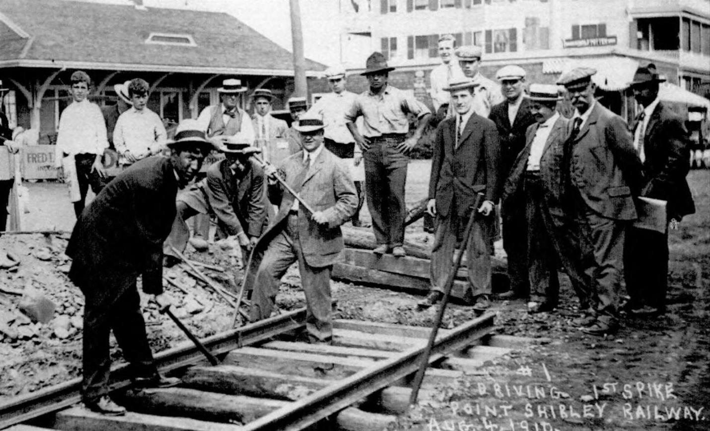 The first track spike for the Point Shirley Street Railway is driven at Winthrop Beach station on August 4, 1910